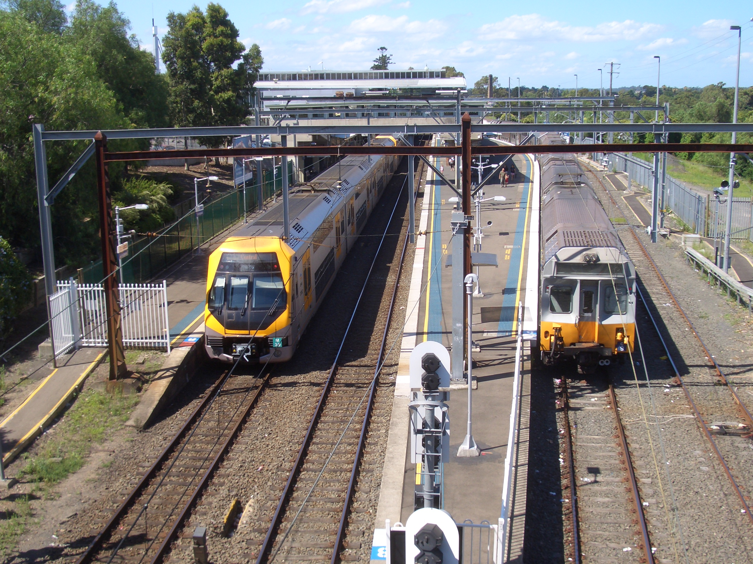 Liverpool railway station, Sydney